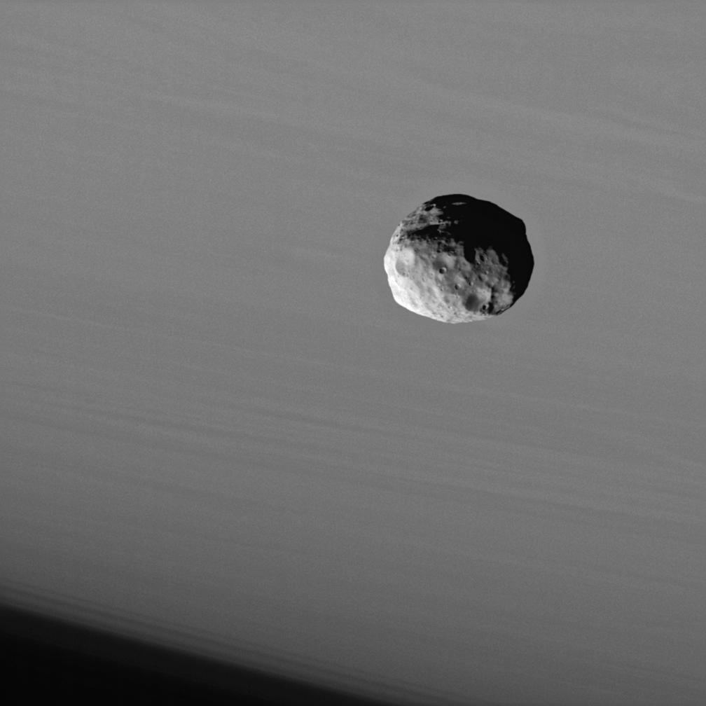 The Cassini spacecraft provides this dramatic portrait of Janus against the cloud-streaked backdrop of Saturn. Like many small bodies in the solar system, Janus (181 kilometers, or 113 miles across) is potato-shaped with many craters, and the moon has a surface that looks as though it has been smoothed by some process. Like Pandora (see PIA07632) and Telesto (see PIA07696), Janus may be covered with a mantle of fine dust-sized, icy material. The image was taken using a spectral filter sensitive to wavelengths of infrared light centered at 930 nanometers. The view was acquired with the Cassini spacecraft narrow-angle camera on Sept. 25, 2006 at a distance of approximately 145,000 kilometers (90,000 miles) from Janus and at a Sun-Janus-spacecraft, or phase, angle of 62 degrees. North on Saturn is up. Image scale is 871 meters (2,858 feet) per pixel.